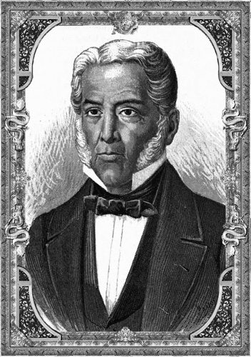 Self-portrait of Juan Nepomuceno Álvarez Hurtado de Luna, Lithograph (1870-1907)